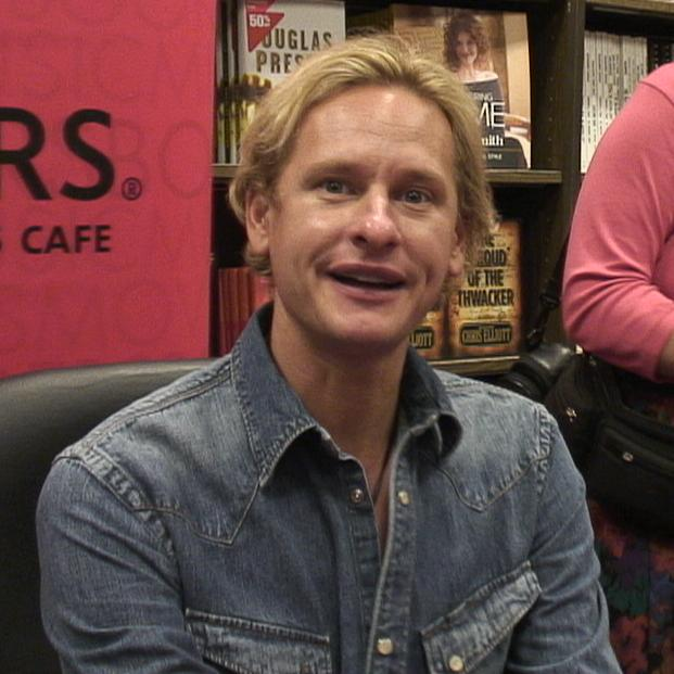 Carson Kressley at a book signing in New York City, New York, United StatesCarson Kressley and Rosie at his book reading